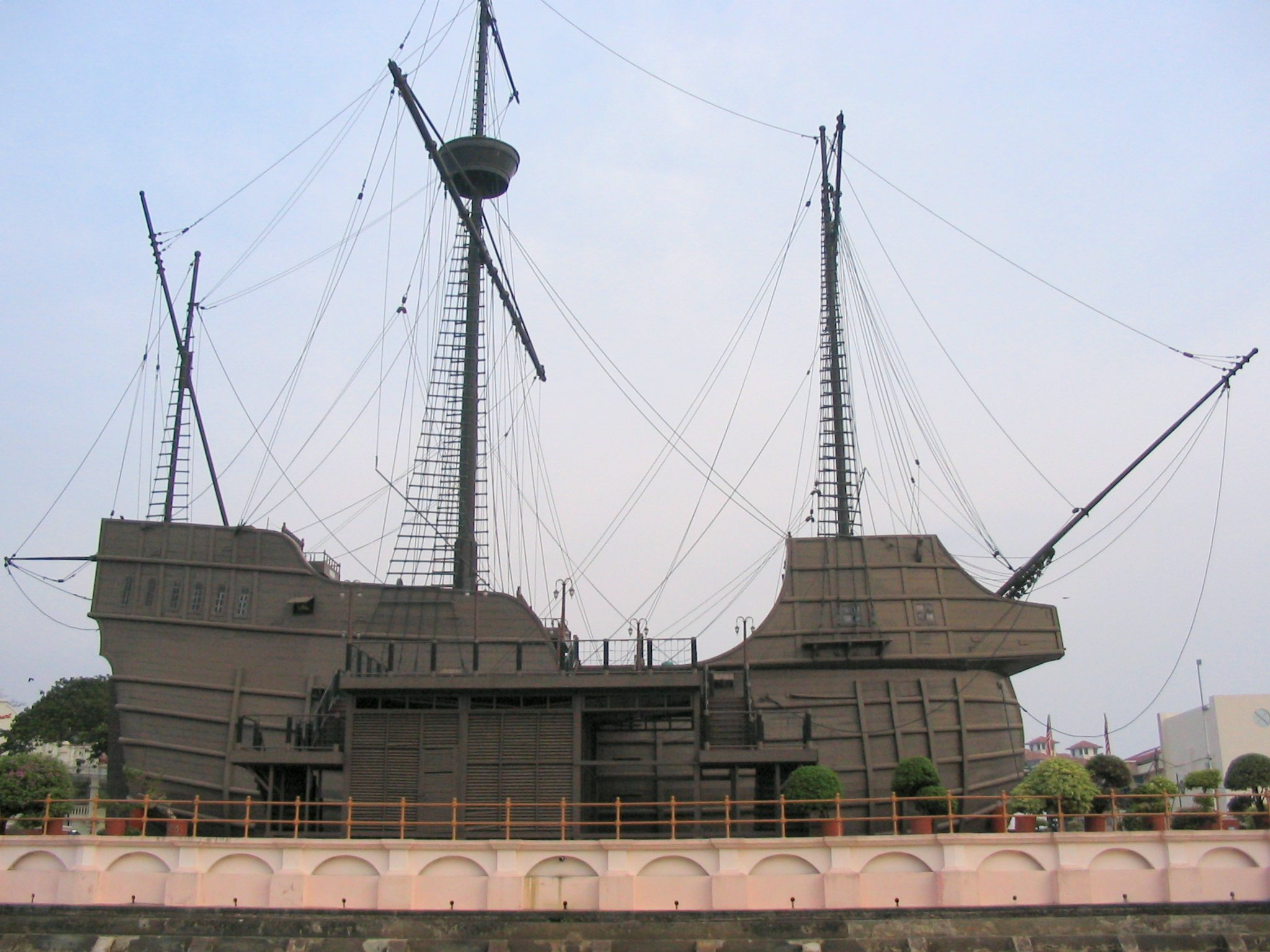 Portuguese Ship Museum on the Melaka River at Melaka, Malaysia. Taken from a river cruise boat.